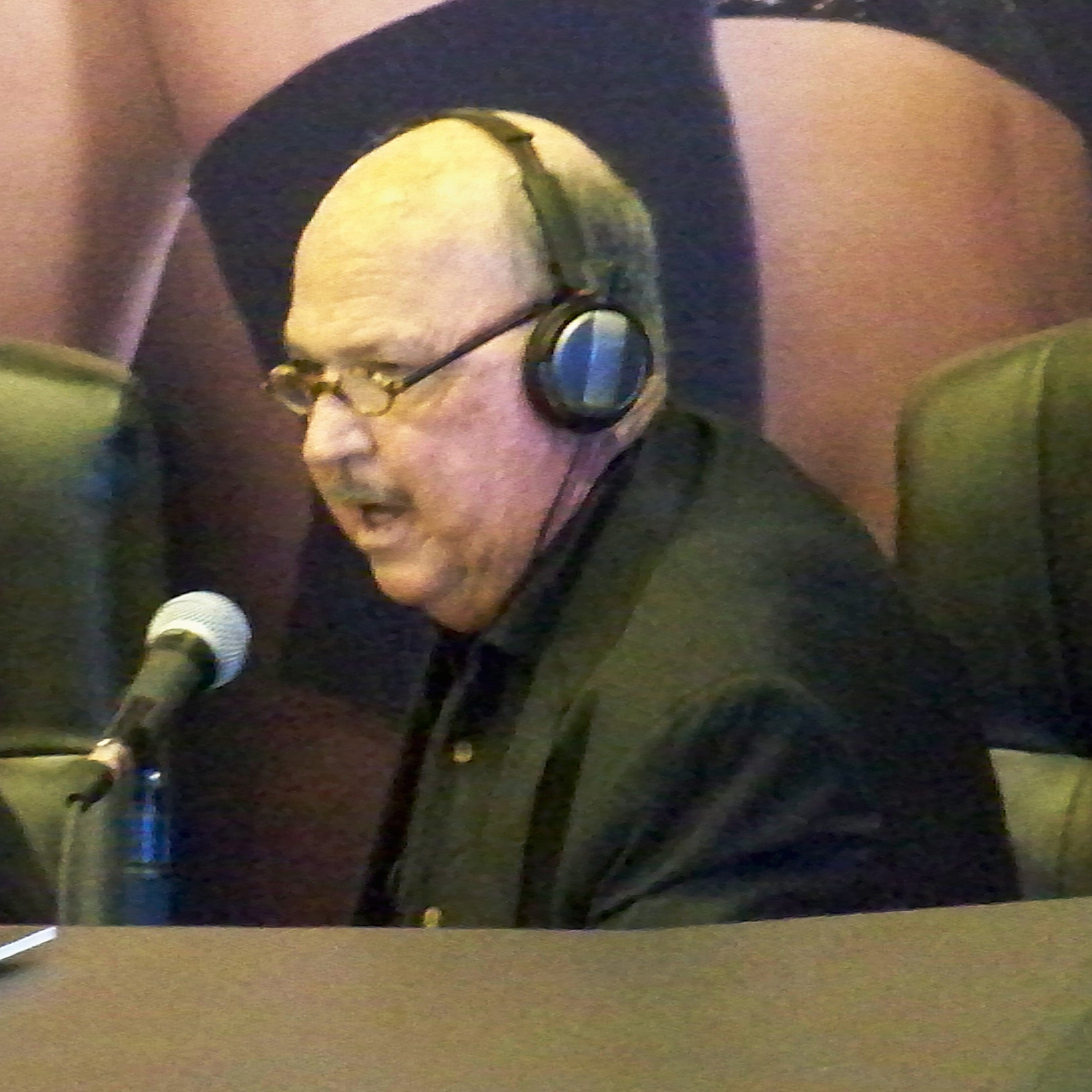 Call a match, y'avais aussi Joey Styles le matin